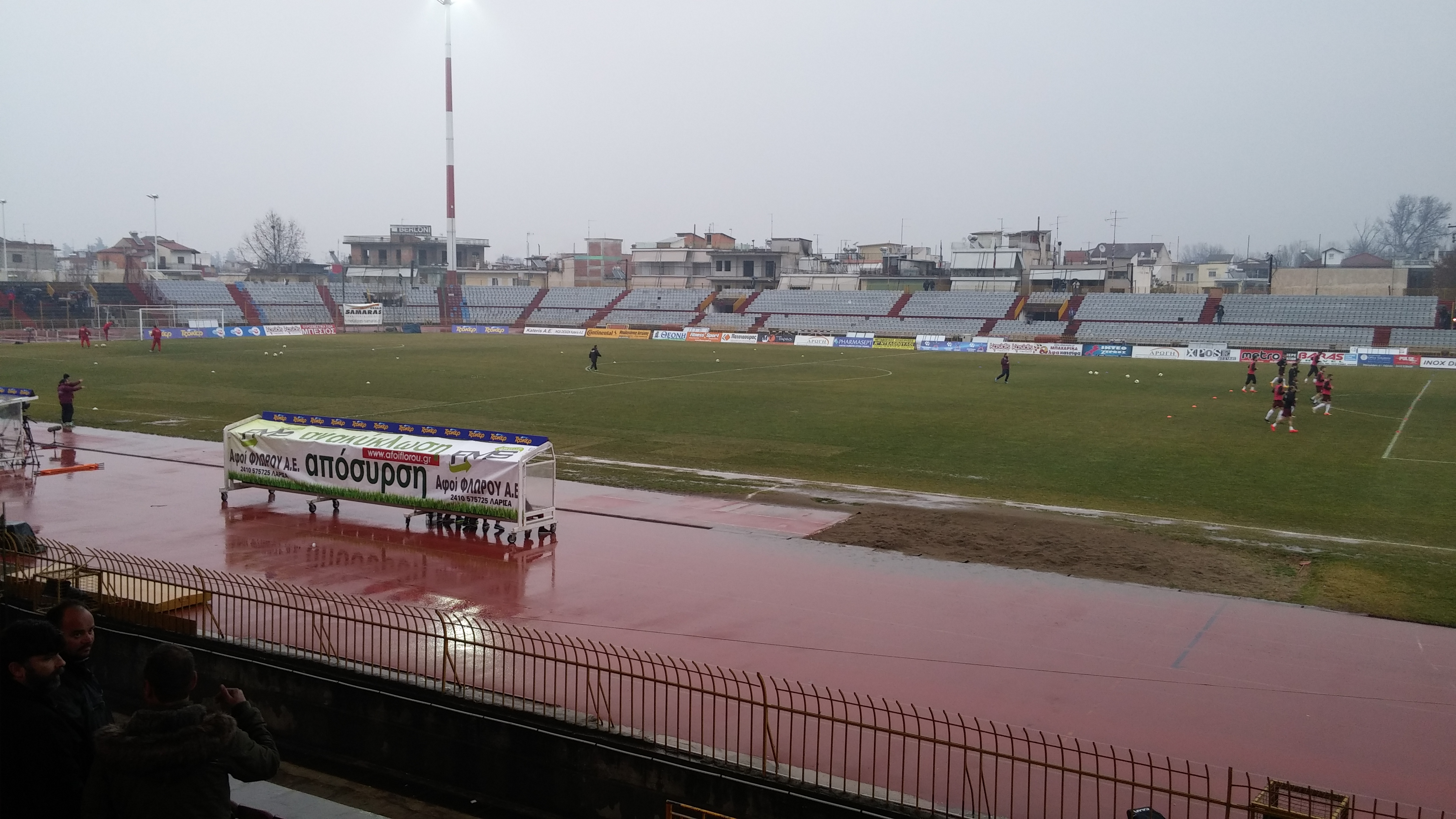 ALKAZAR STADIUM OLD HOME GROUND OF AEL FC.